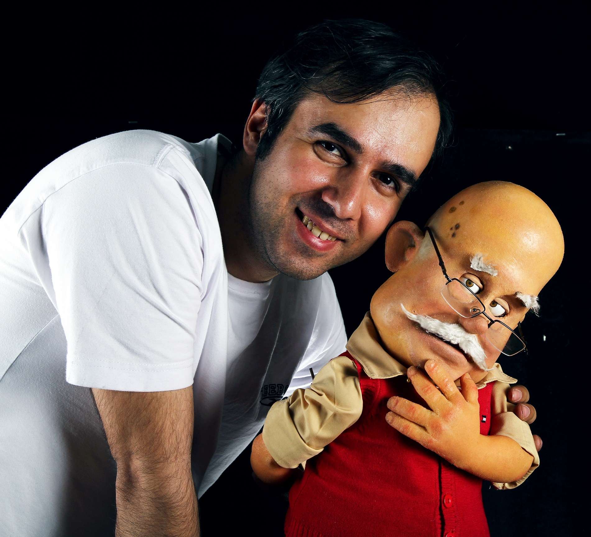 Ali Etesamifar, Iranian Puppeteer and Puppet maker, poses with his handmade puppet, Joseph.